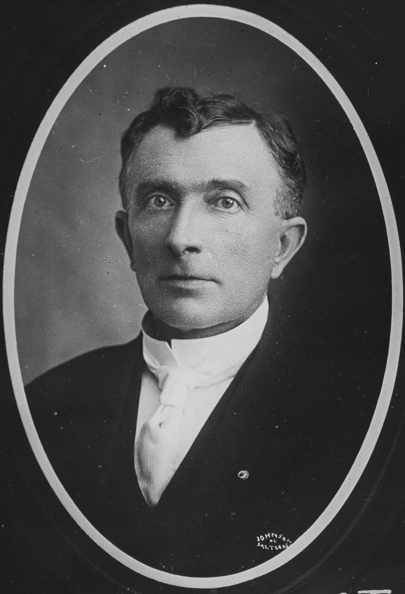 Portrait circa 1910